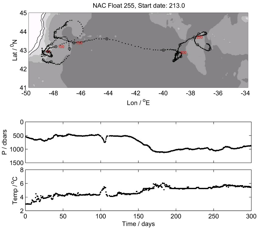 The trajectory of a float crossing the NAC (North Atlantic Current) (top) with the corresponding temperature (middle) and pressure records (bottom).